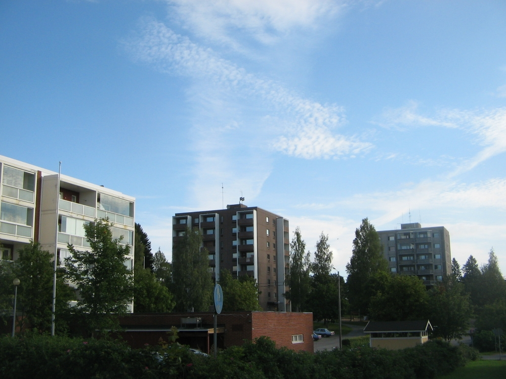 Altocumulus clouds on sky. Maybe some altostratus-like structure.